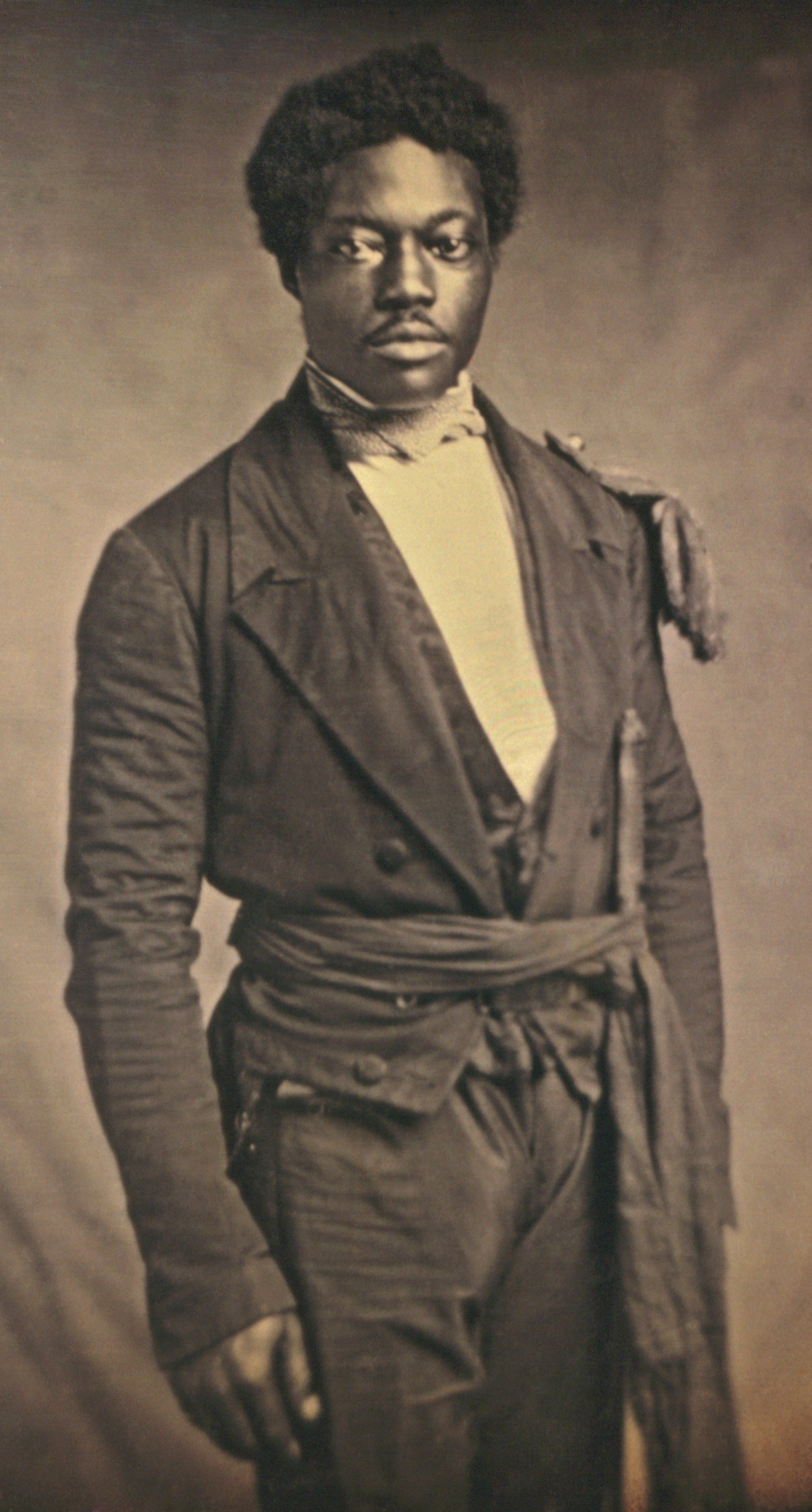 Chancy Brown, three-quarter length portrait, facing front: Sargeant at Arms of the Liberian Senate. The American Colonization Society was organized in 1817 to resettle Afro-Americans in Liberia.